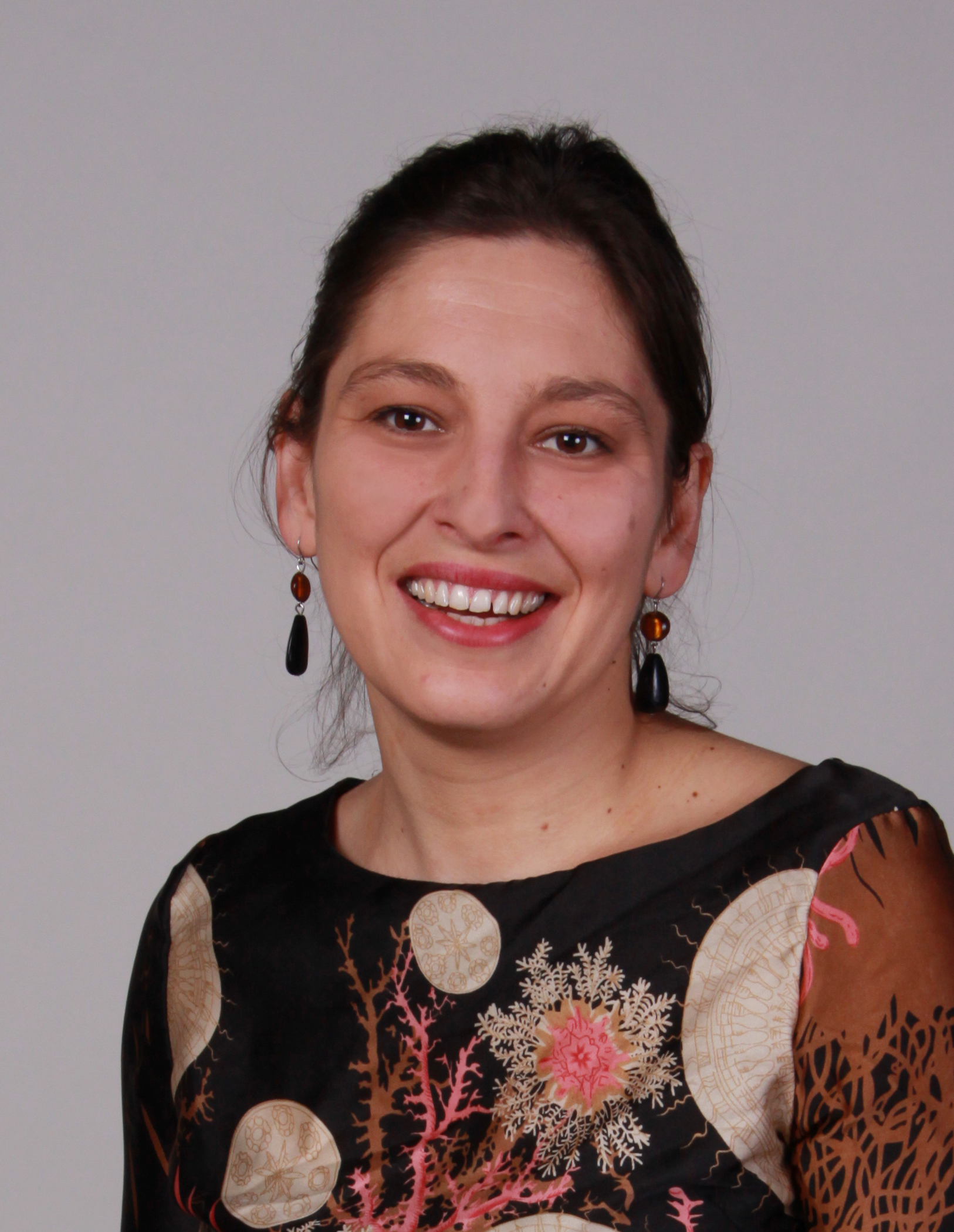 Livia Jaroka, Member of the European Parliament